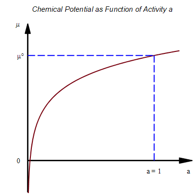 Chemical standard potential is defined at ideal conditionis at the activity of 1 mol / L. It can take positive nad negative values as well.